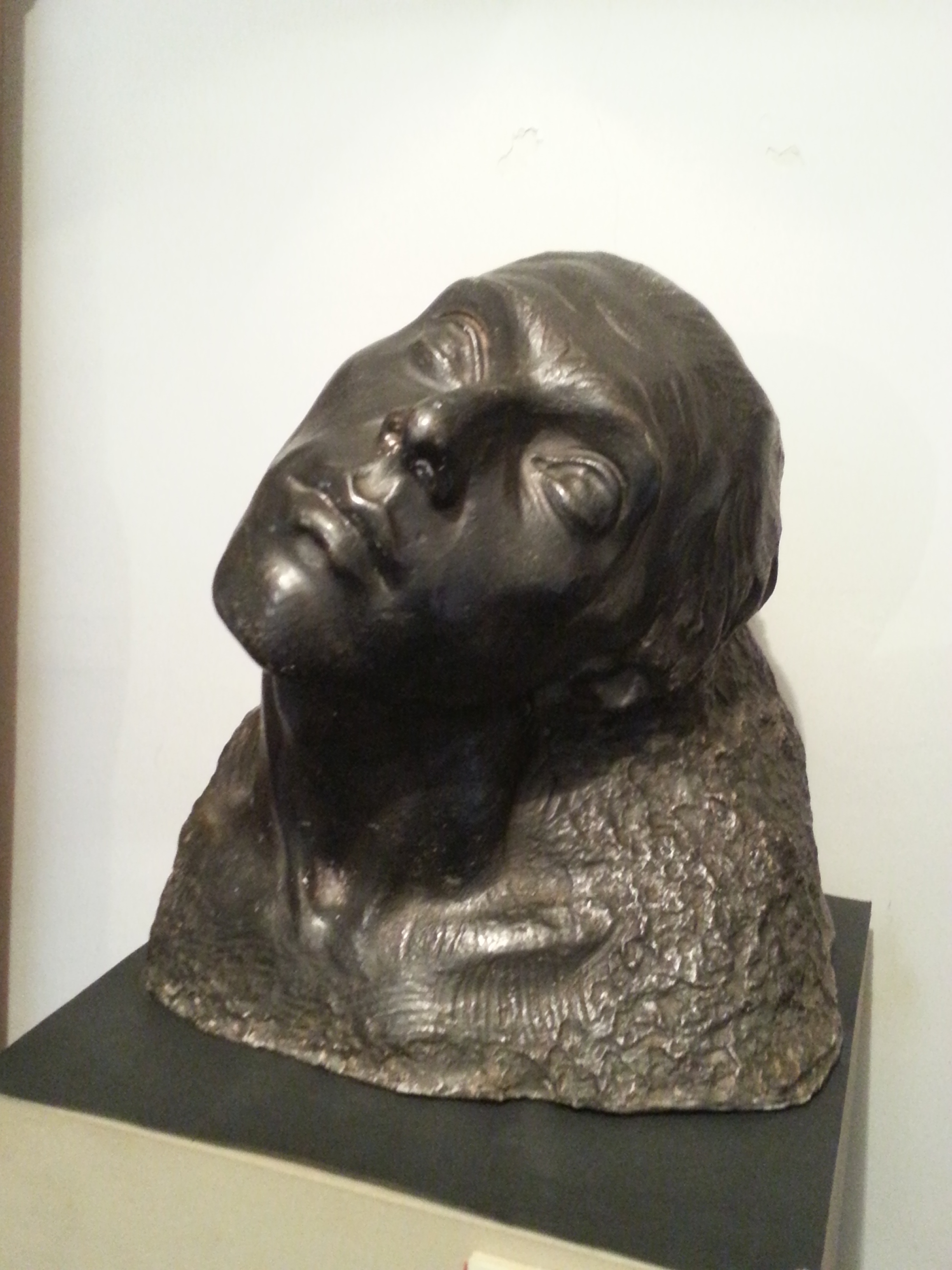 Bronze head, representing the intellectual and chronicler of Segovia, Mariano Grau, 1925. House-Museum of Antonio Machado